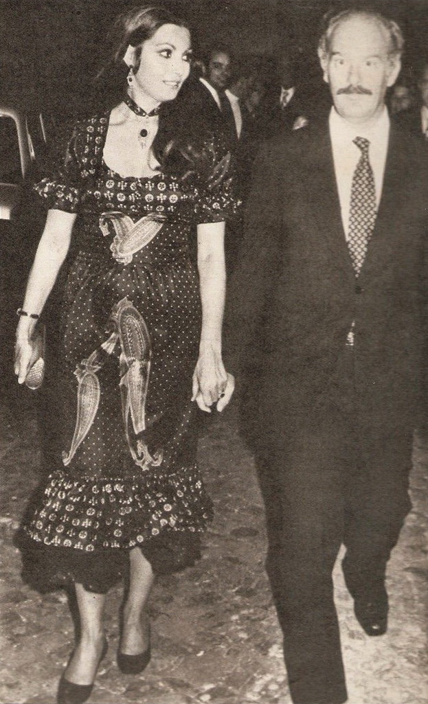 Italian actress Rosanna Schiaffino and producer Alfredo Bini in Rome